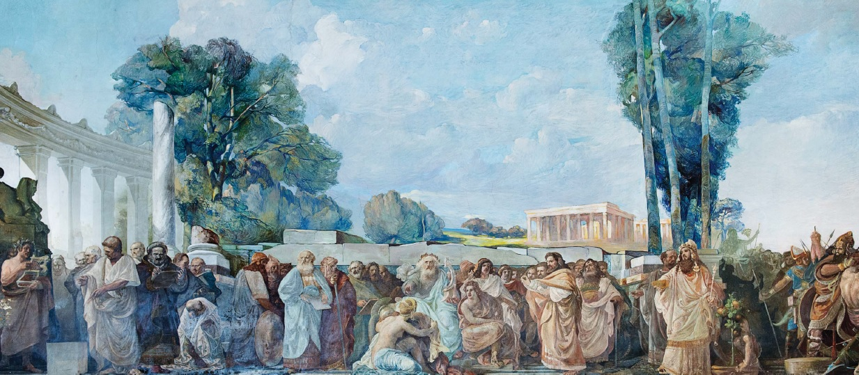 Agriculture from barbaric times to imperial Rome